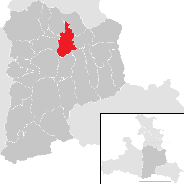 District Sankt Johann im Pongau